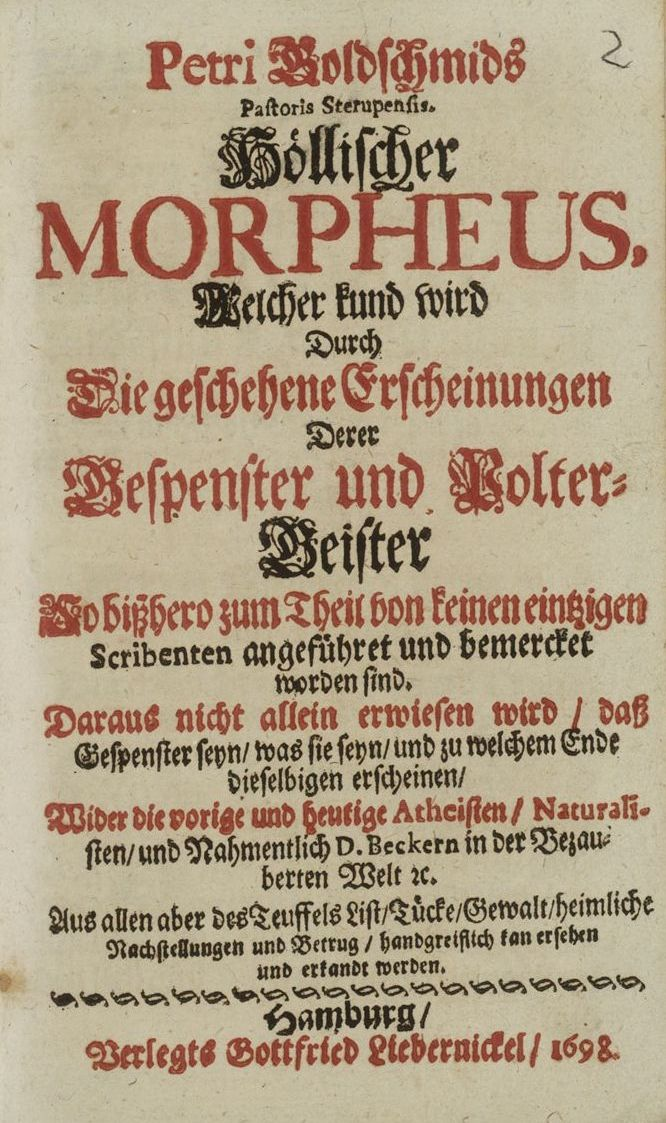 Title page of Peter Godschmidts "Höllischer Morpheus" (Hamburg 1698)